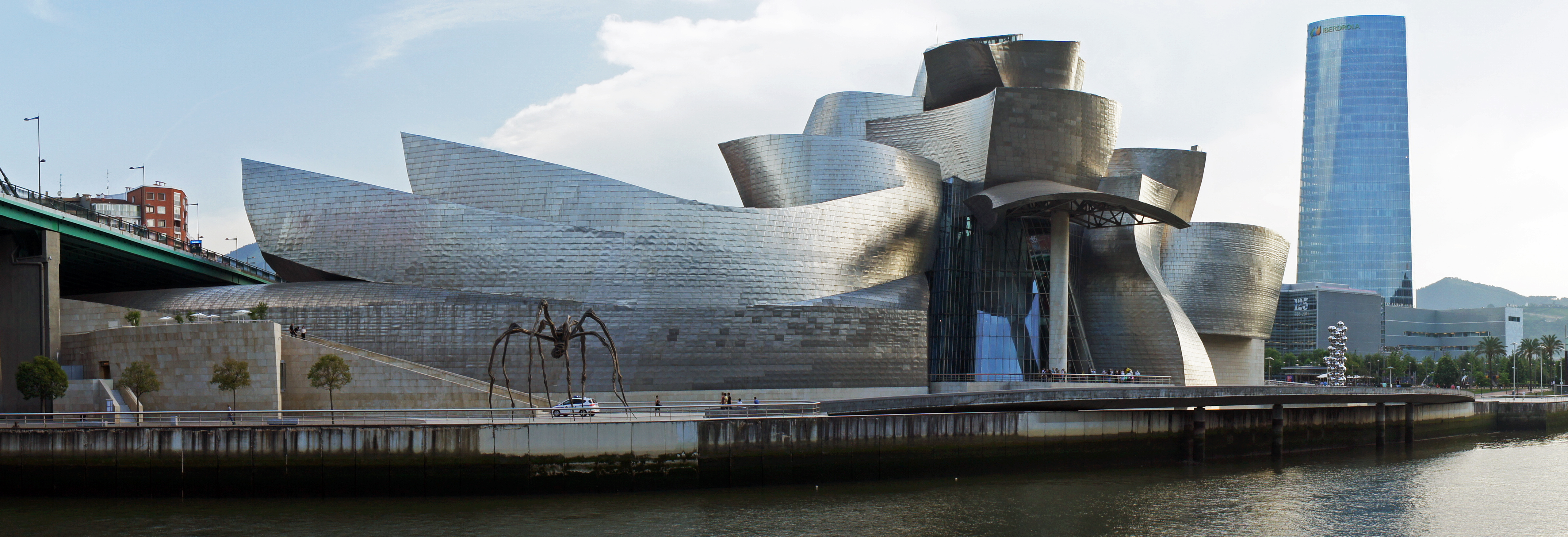 Panoramic view of the Guggenheim Museum Bilbao taken from the right bank of the Nervion river. In the background to the right is the Iberdrola Tower. Bilbao, Basque Country, Spain.